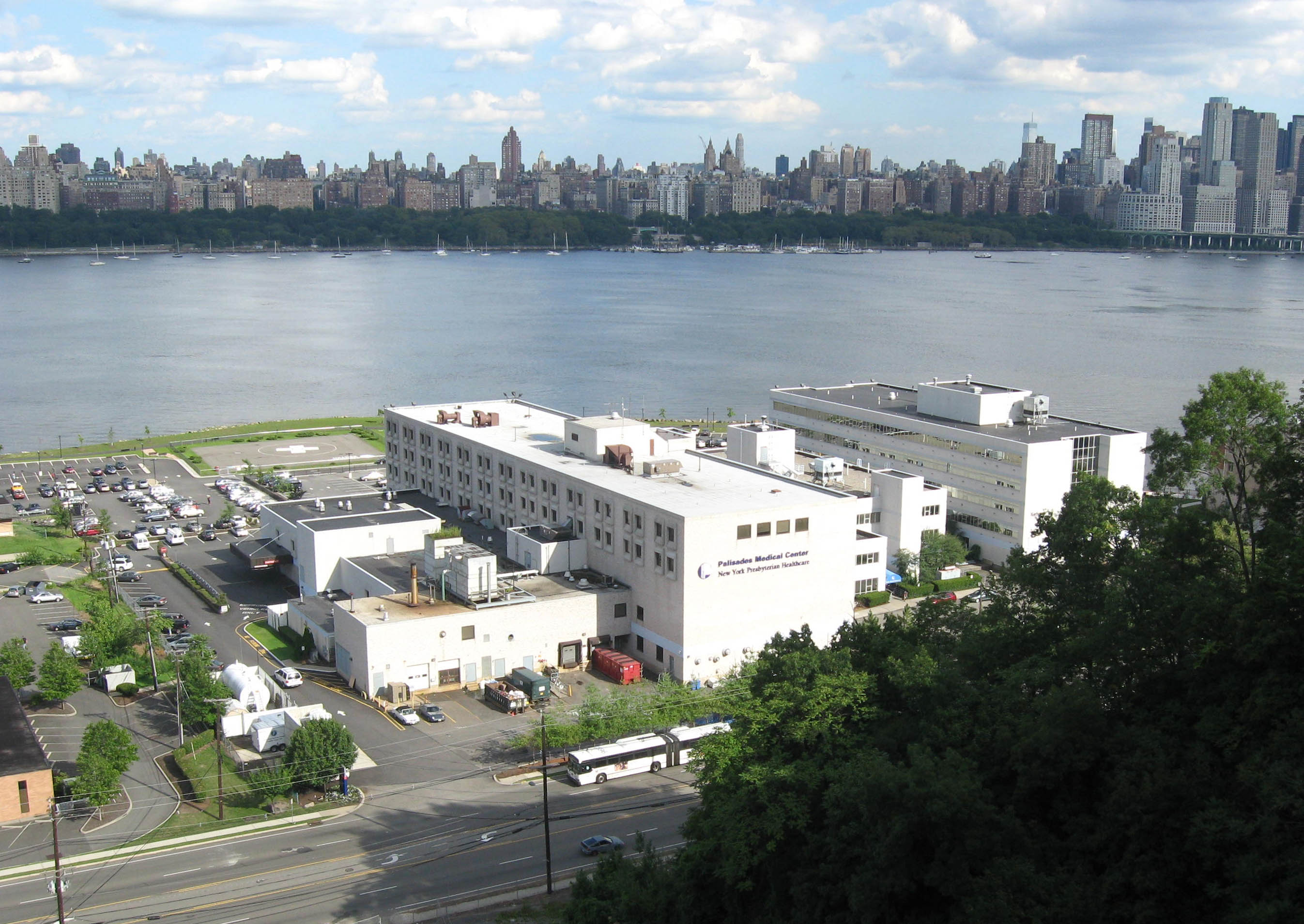 Looking southeast down the cliff from Gutenberg, New Jersey upon Palisades Medical Center on a clouding up early afternoon. en:79th Street Boat Basin is in background.